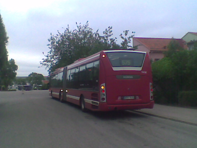 A Scania OmniLink in Sigtuna, Sweden.